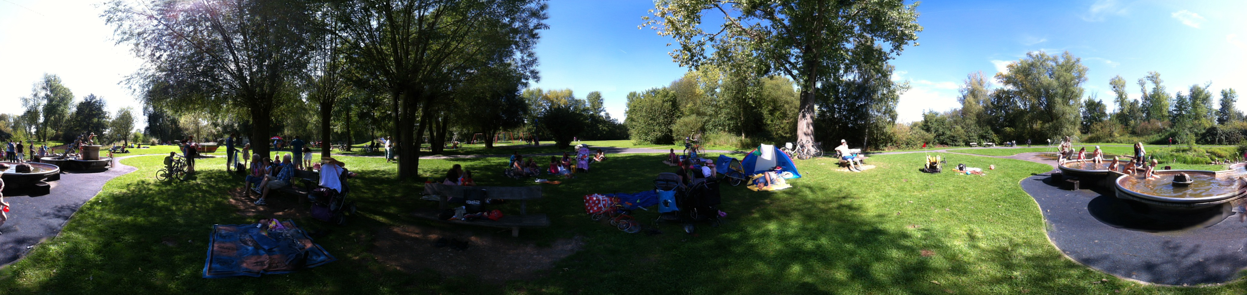 360° panoramic view of water playground in Fuldaaue Kassel.